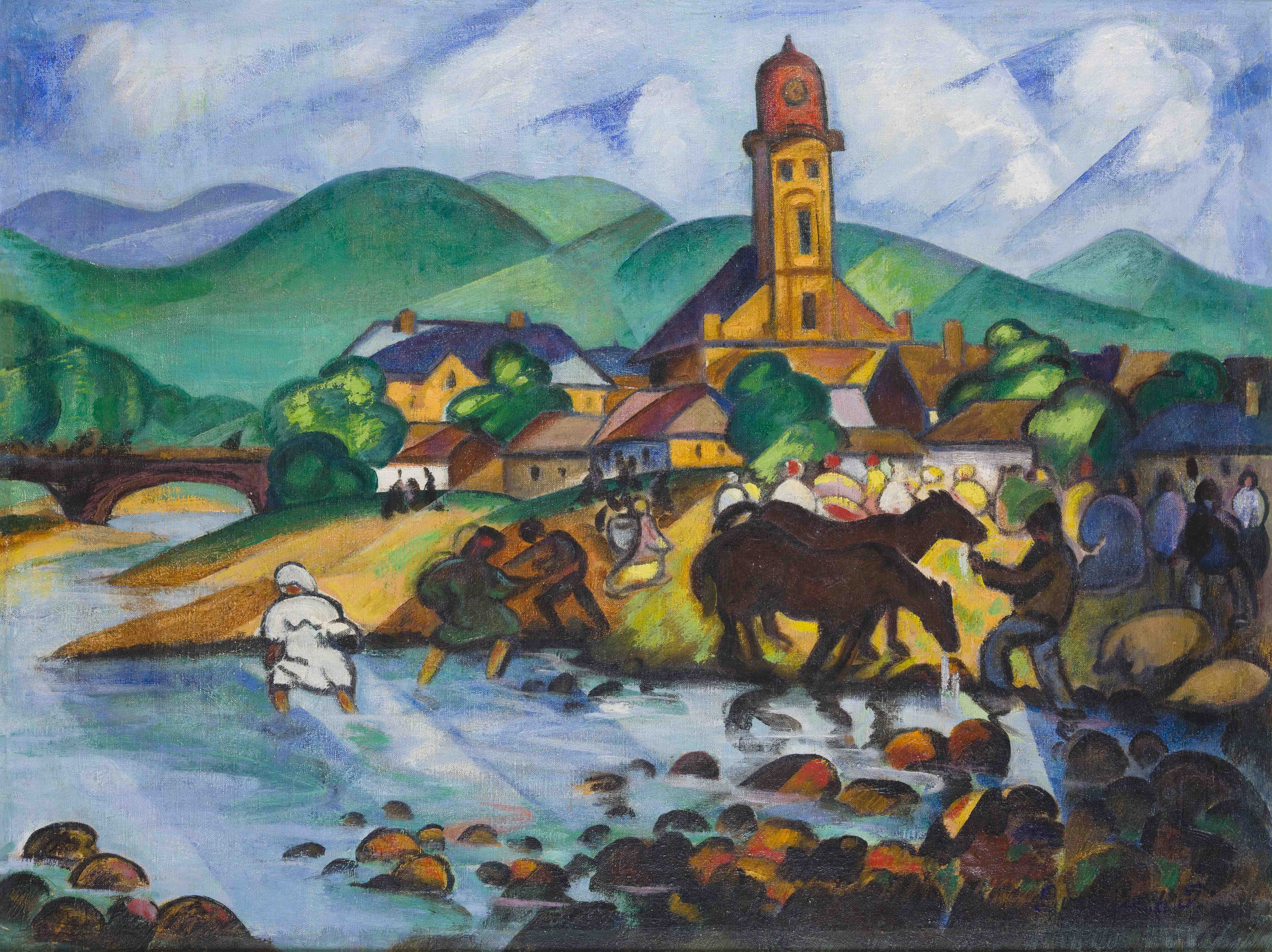 Tibor Boromisza - Fair at Baia Mare 72x95 oil on canvas 1914